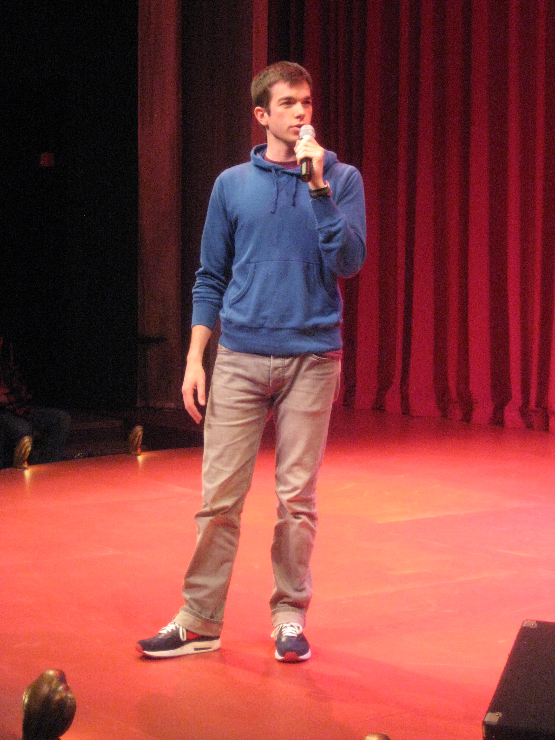 John Mulaney at Bumbershoot 2010